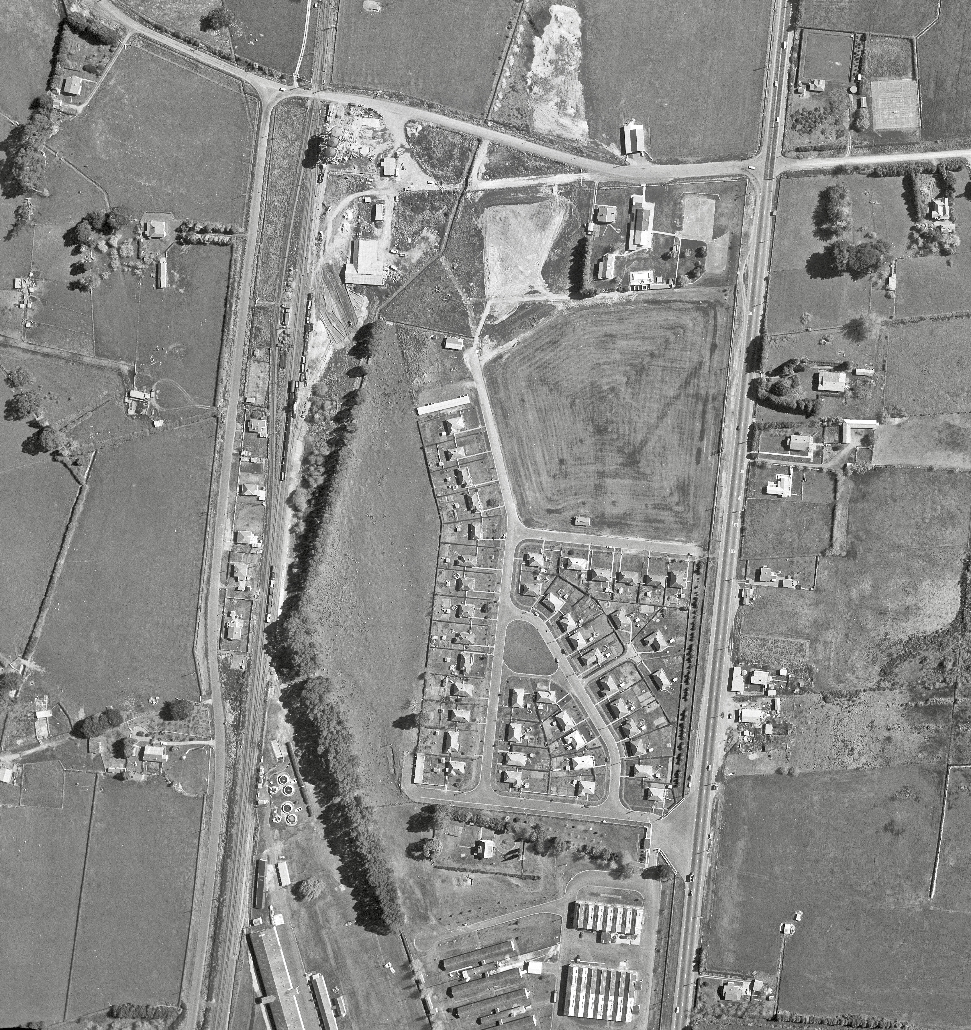 a locomotive appears to be shunting in the yard. This work is based on/includes LINZ’s data which are licensed by Land Information New Zealand (LINZ) for re-use under the Creative Commons Attribution 4.0 International licence.